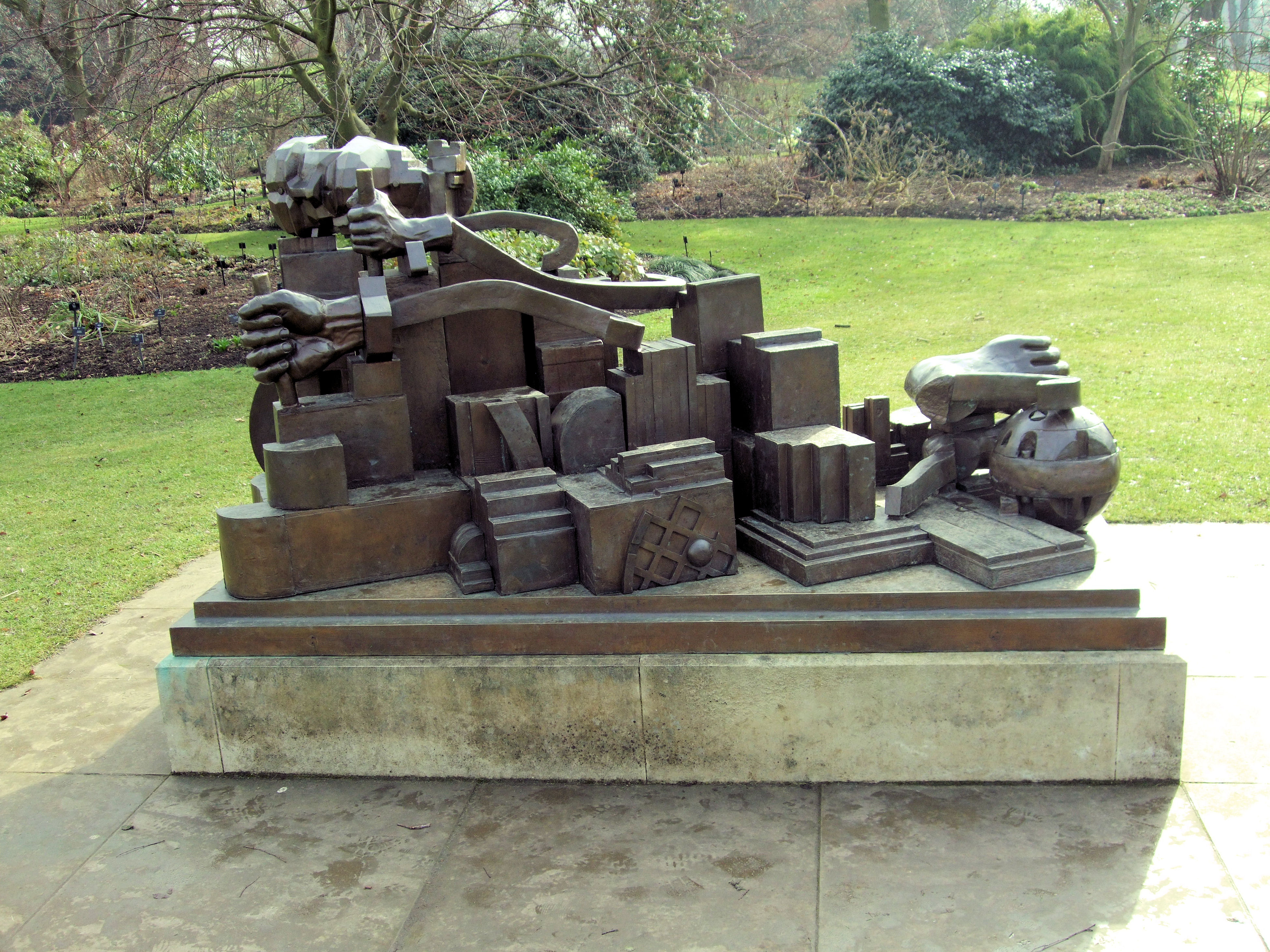 The sculpture "A Maximis Ad Minima" in Kew Gardens at the west end of the Princess of Wales Conservatory in London/U.K.. Eduardo Luigi Paolozzi, KBE, FRA (7 March 1924 – 22 April 2005), was a Scottish sculptor and artist. He was a major figure in the international art world working without compromise on his own interpretation and vision of the world around us.